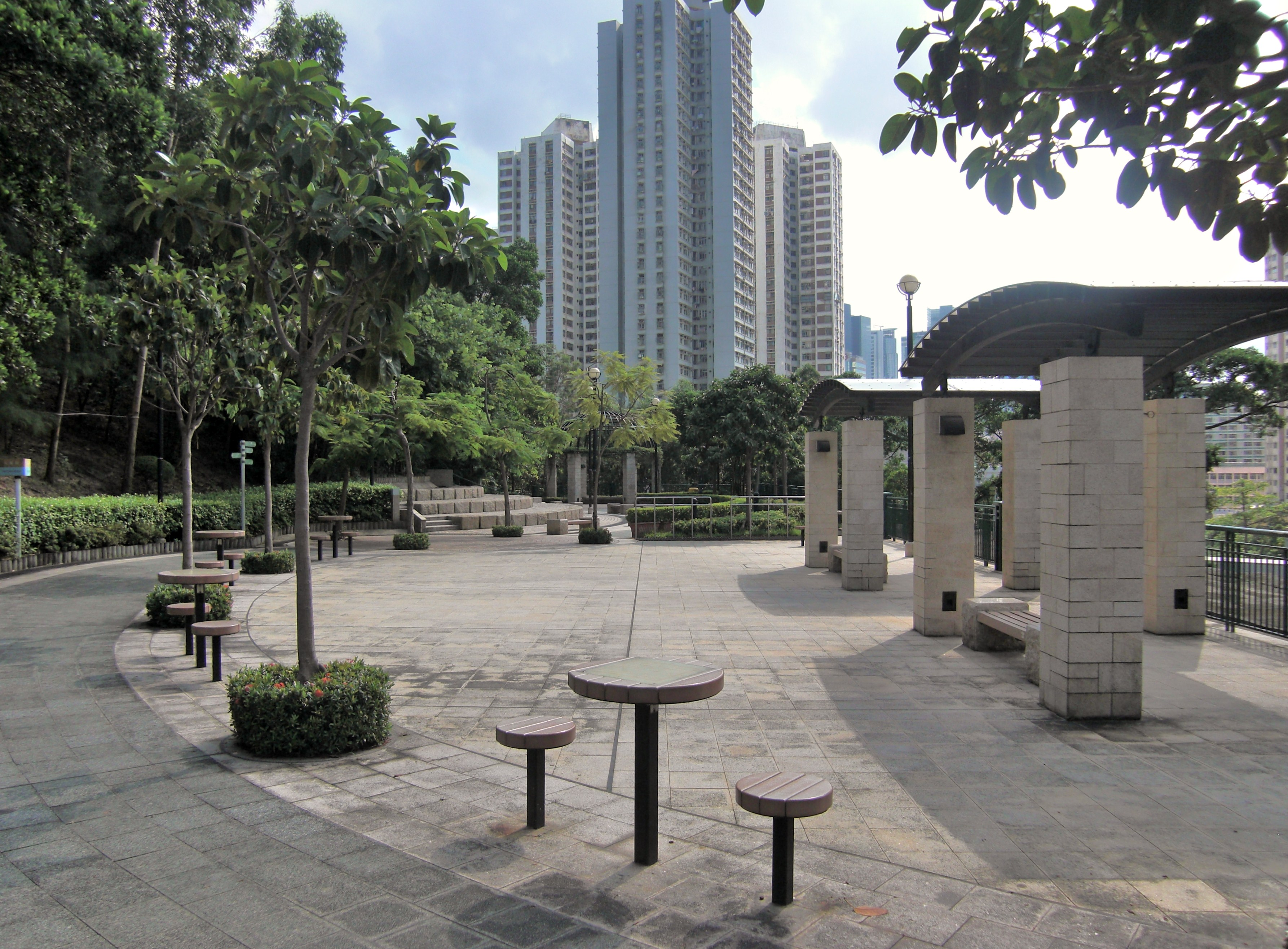 A view of the viewing platform of Jordan Valley Playground Phase 2 Site 2 is seen.